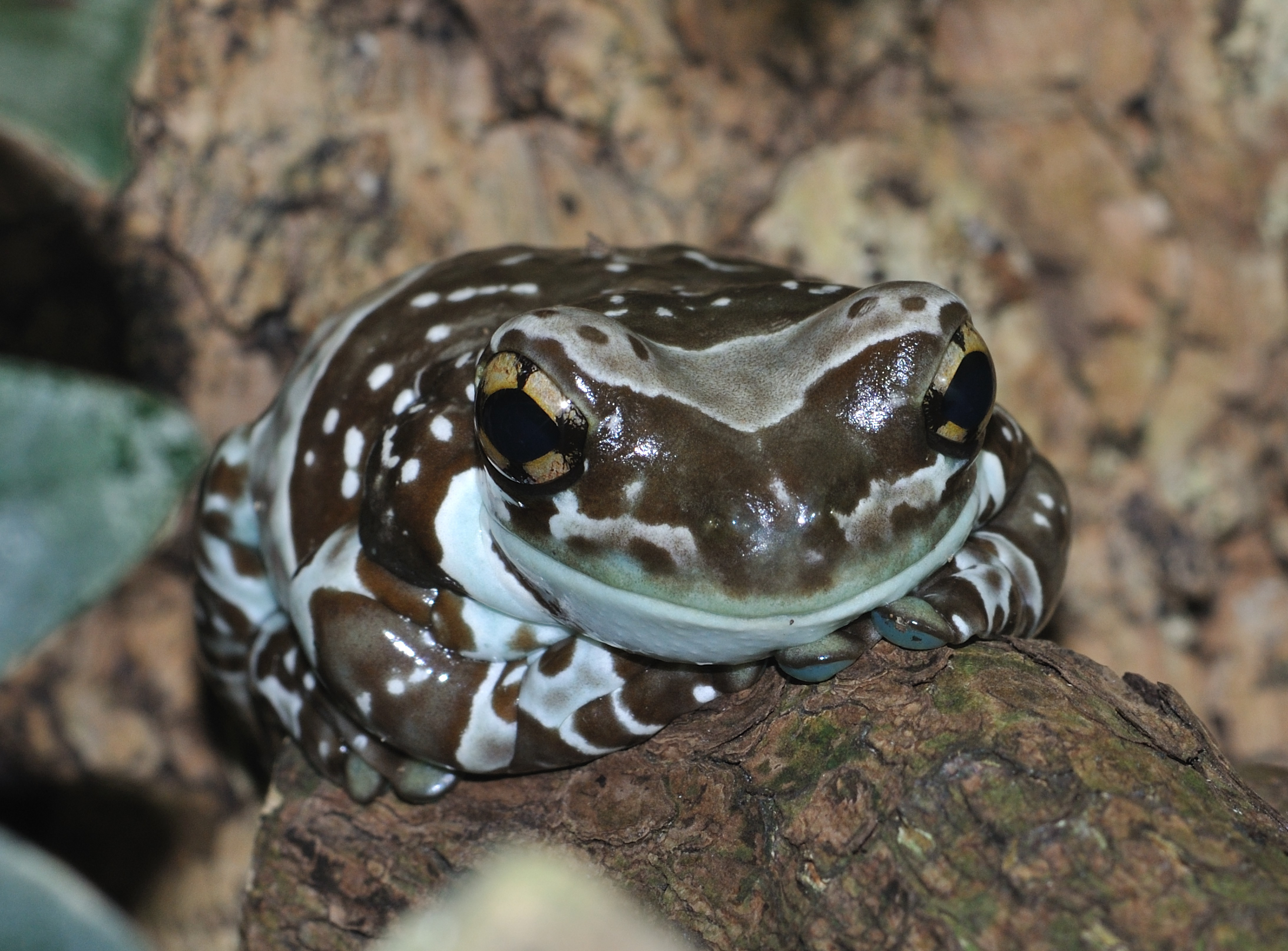 Amazon Milk Frog (Trachycephalus resinifictrix) in the Frankfurt Zoo, Germany.